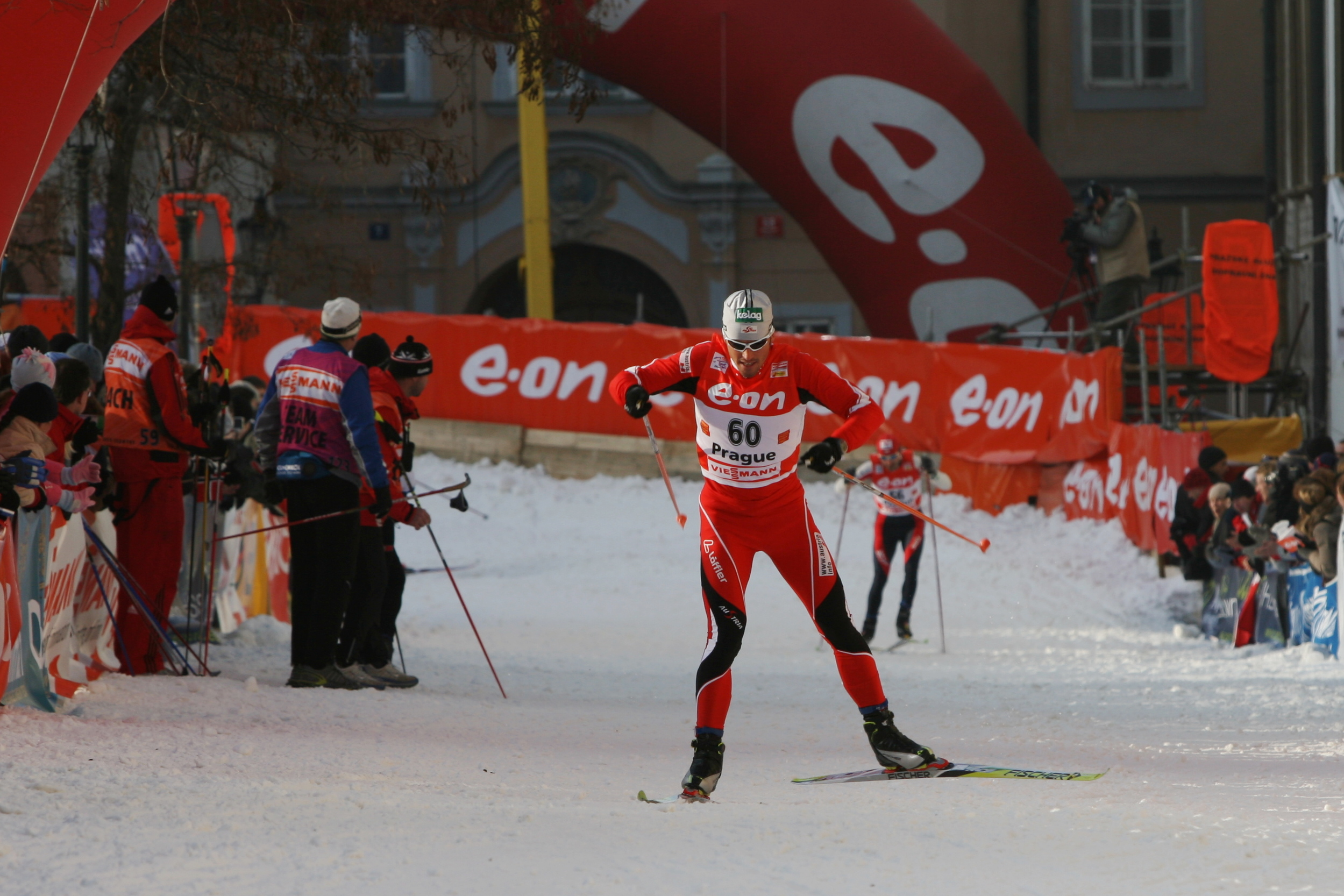 Jürgen Pinter in the qualification of Tour de Ski in Prague